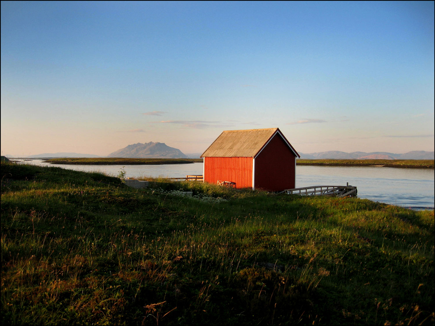 Omnøya, an island of Vega archipelago in Norway